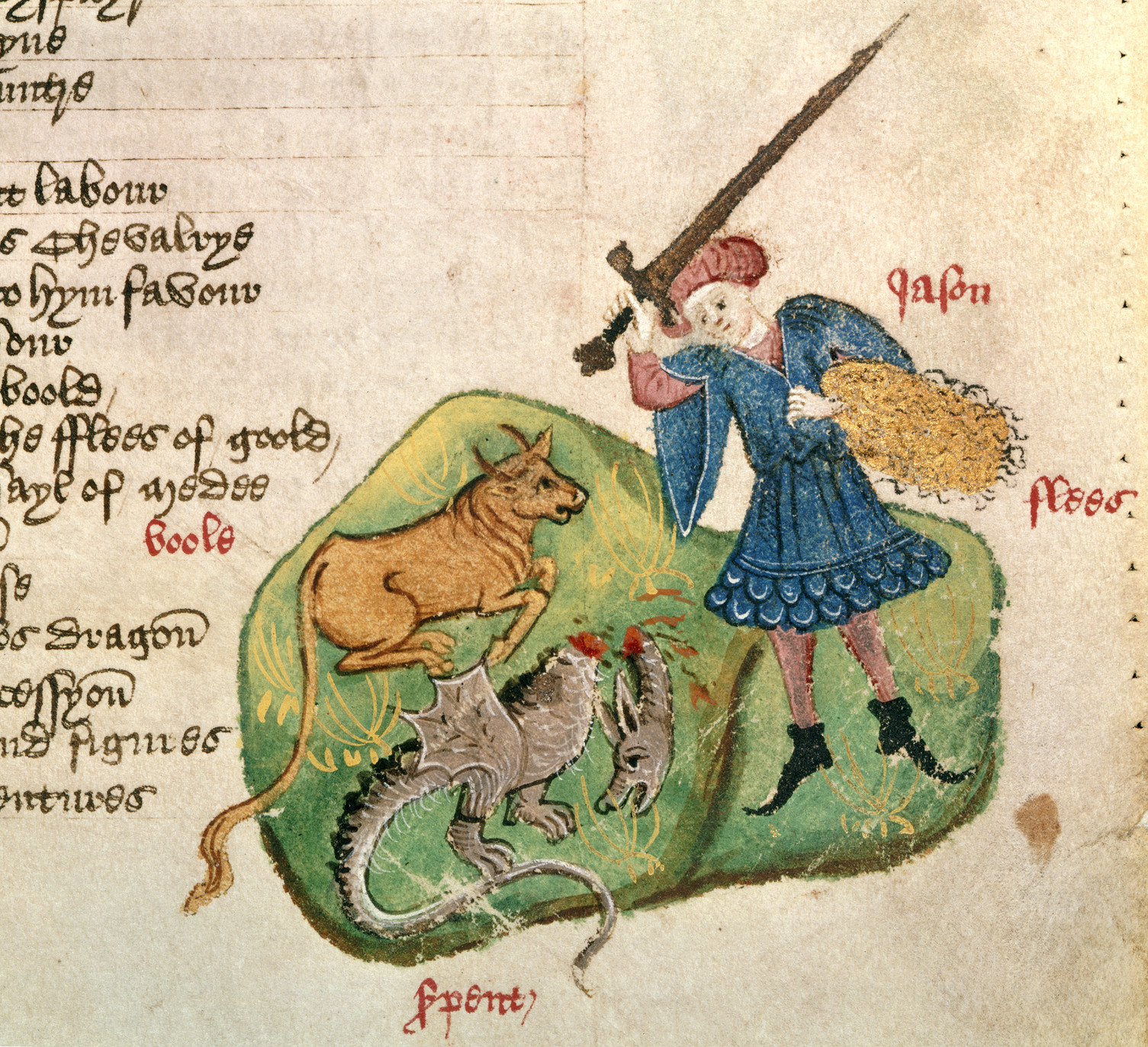 Jason wins the Golden Fleece (Detail) Book I, line 2199. Jason beheads the dragon which guarded the Golden Fleece; a bull tamed for ploughing lies nearby.